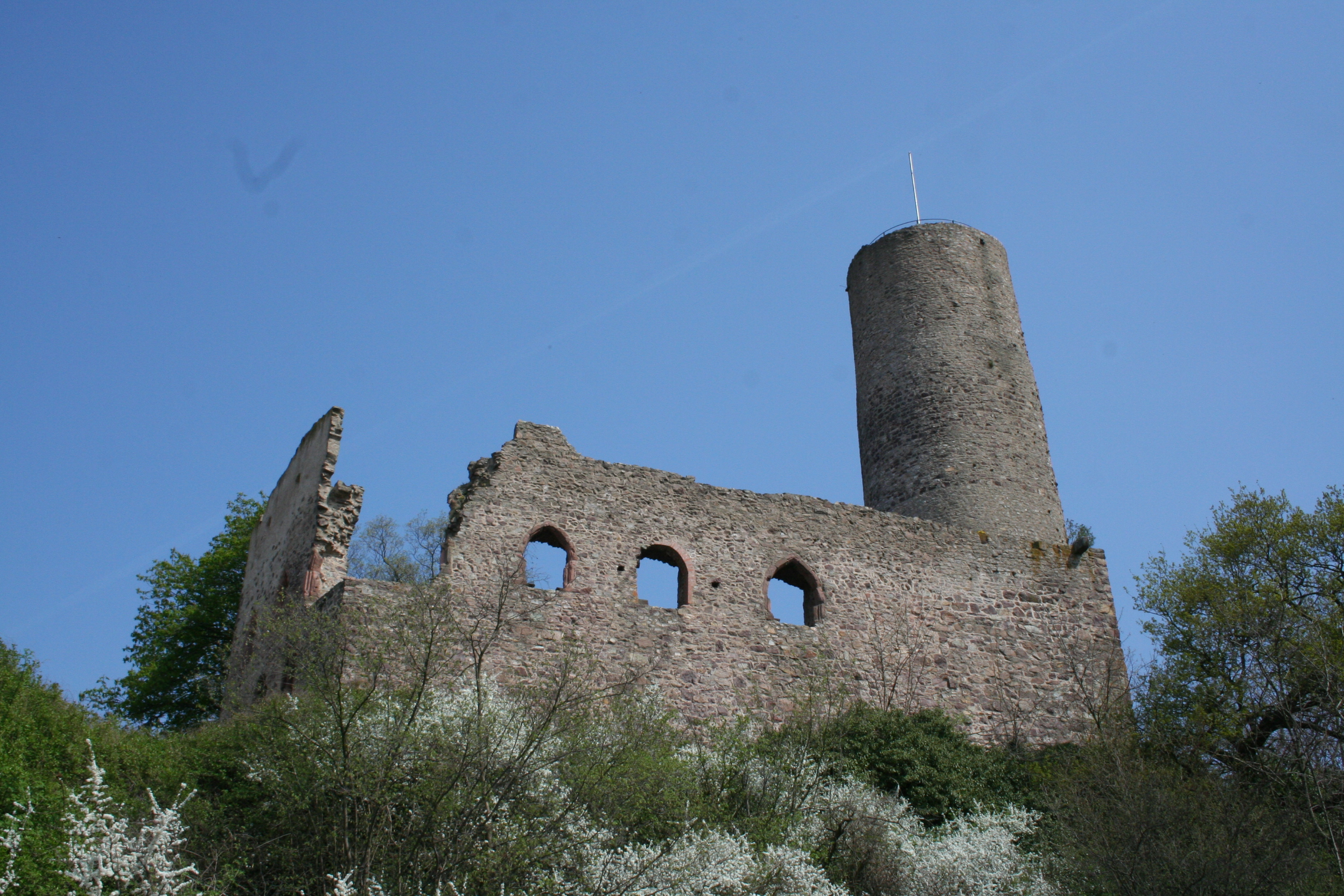 Castle Strahlenburg, Schriesheim, Germany